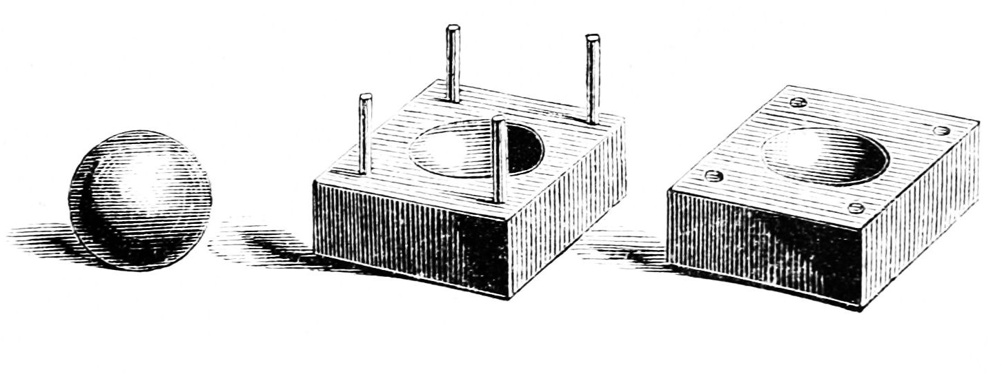 Mould and ice ball formed by compression